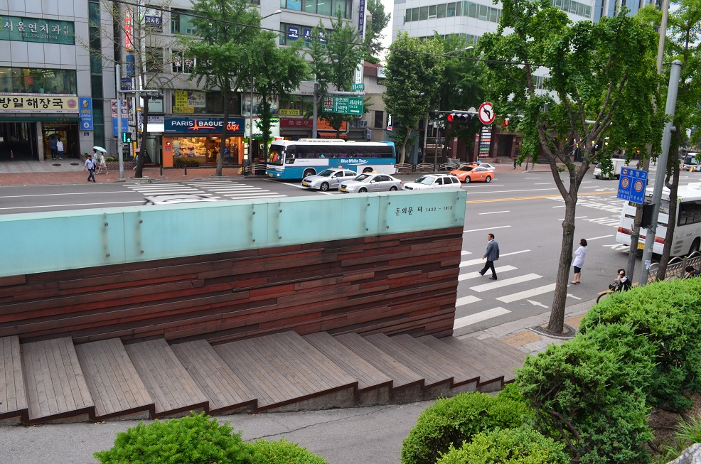 Memorial of Donuimun Gate, also known as West Gate or Seodaemun, Seoul, South Korea. Photographed May 27, 2012. Photo shows back of memorial.